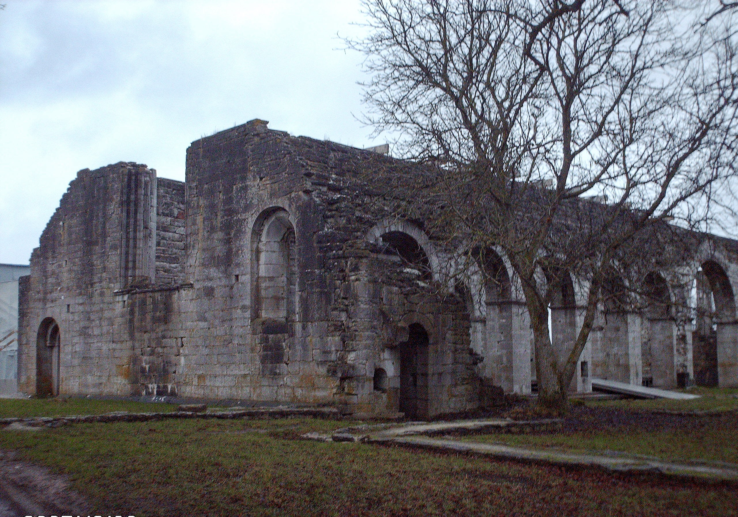 Roma monastery, Gotland, Sweden